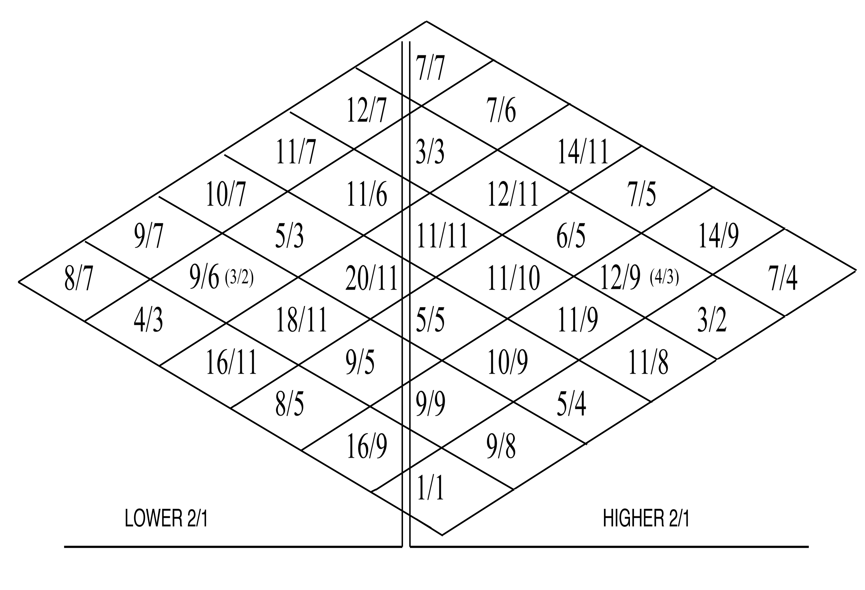 harry partch (composer), tonal basis of his system